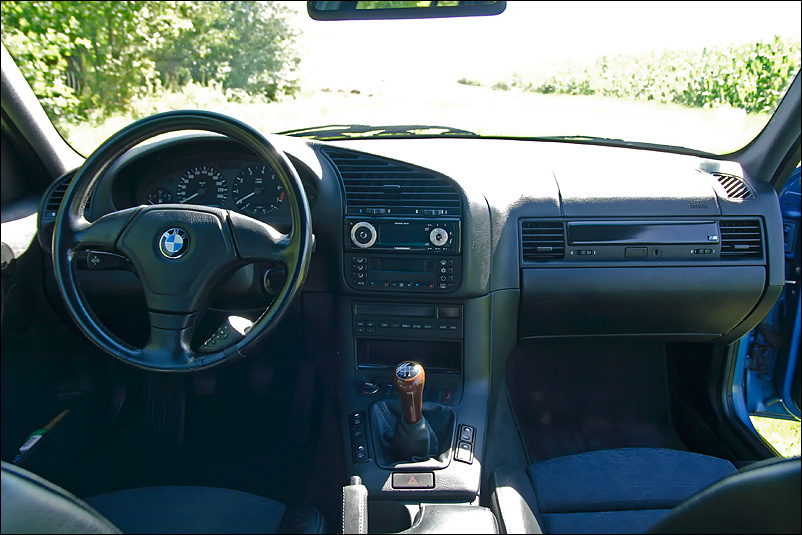 BMW 328i TOURING PACK M